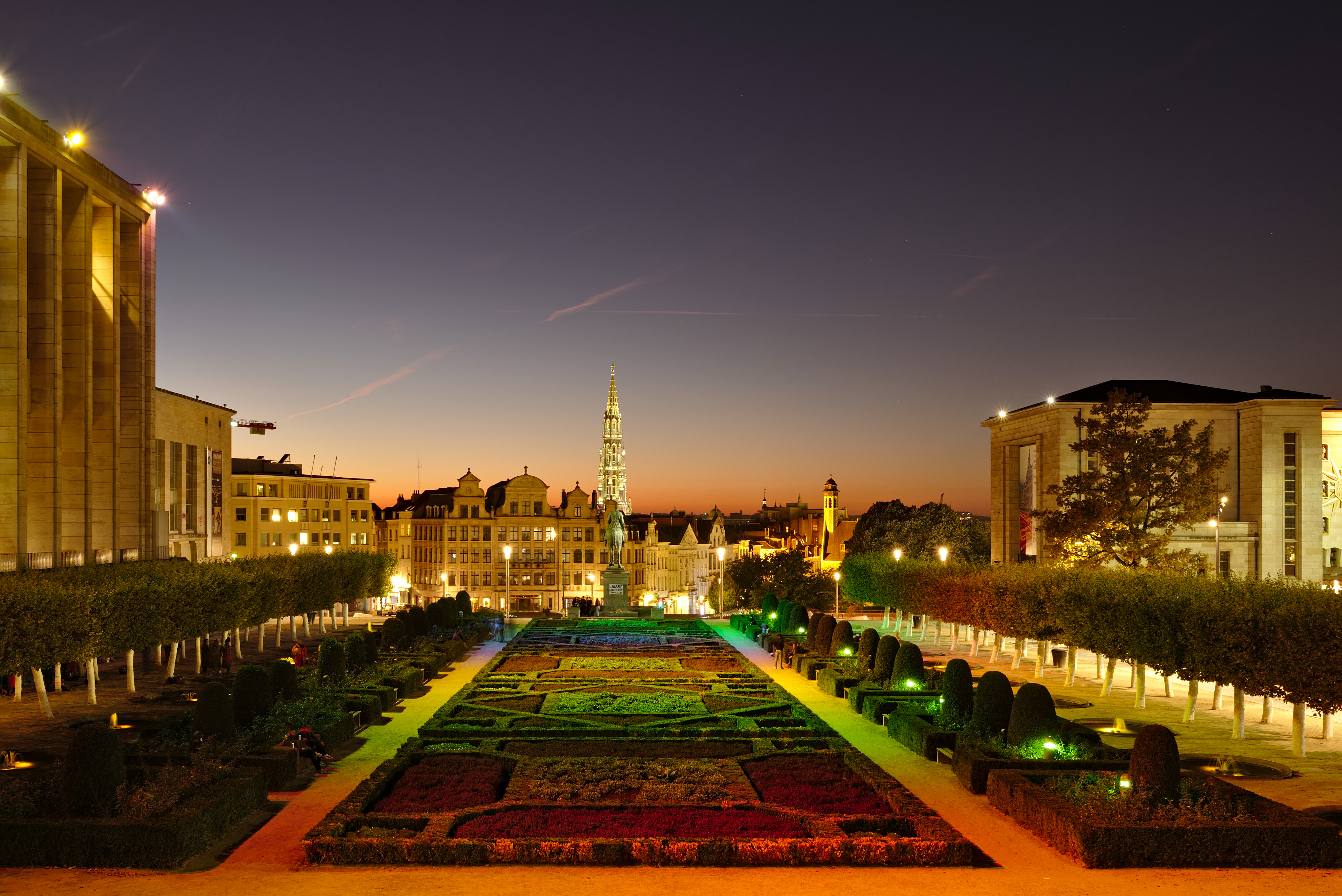 Garden of Kunstberg viewed from Mont des Arts during the nautical twilight This photo of immovable heritage has been taken in the Brussels Capital Region